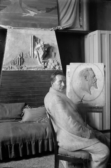 Einar Jónsson, myndhöggvari á vinnustofu sinni í Hnitbjörgum á Skólavörðuholti, 1923 - 1930. Reykjavík, Iceland, Einar Jónsson, sculptor, in his atelier, Hnitbjörg on Skólavörðustígur, 1923 – 1930. Format: Glass negatives. 10x15 cm. Repository: Ljósmyndasafn Reykjavíkur / Reykjavík Museum of Photography, Tryggvagata 15, 6. Hæð / 6th floor Númer myndar / Call Number: MAÓ 139 Reykjavík Museum of Photography´s photoweb: ljosmyndasafn.reykjavik.is/fotoweb/Grid.fwx